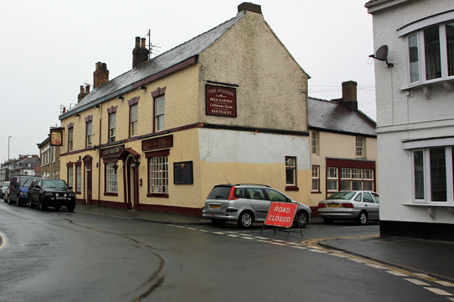 The Station, Filey The road past the pub is Church Street which leads to Station Road.